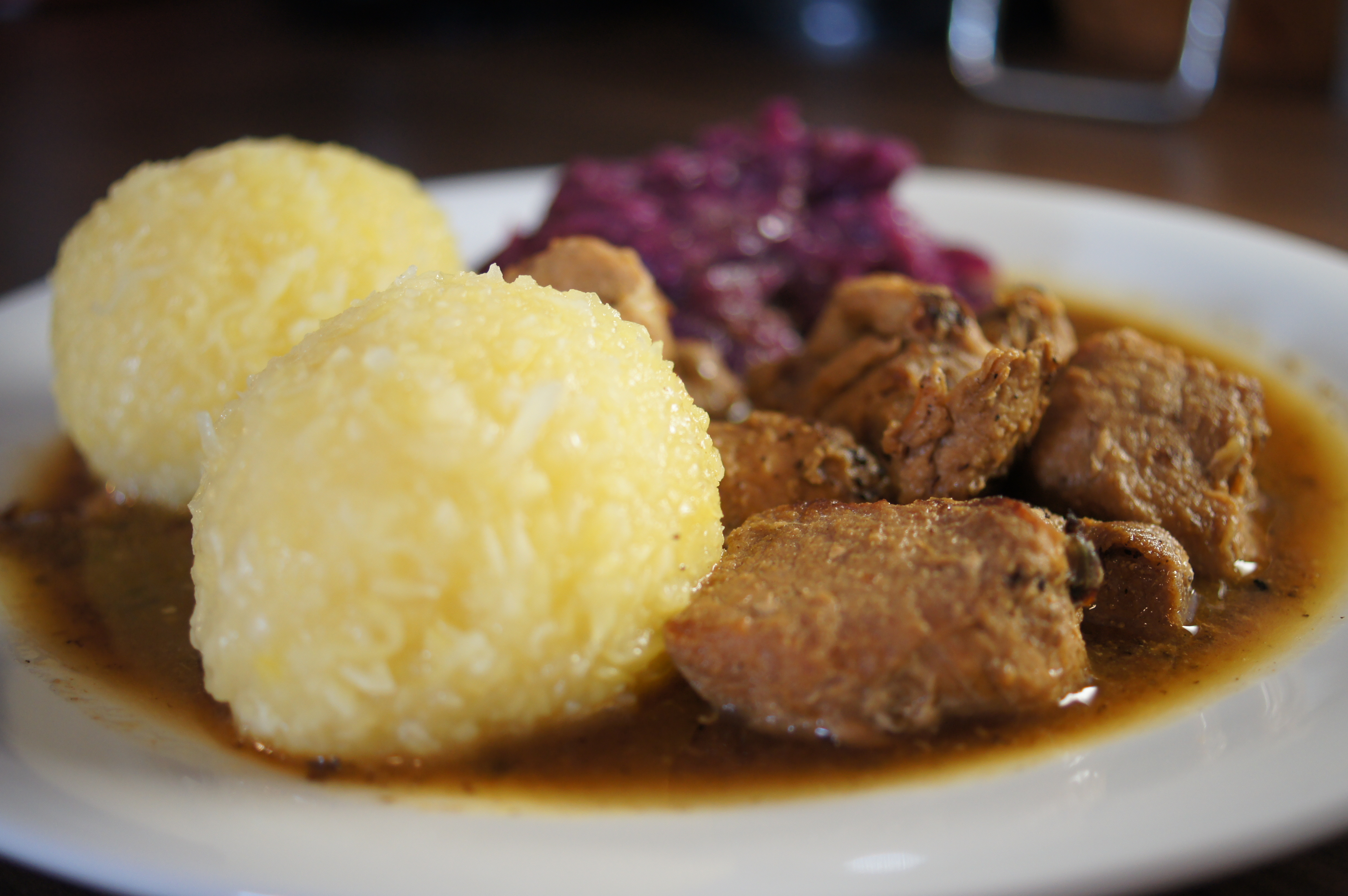 Beef goulash, red cabbage and Thuringer Kloesse